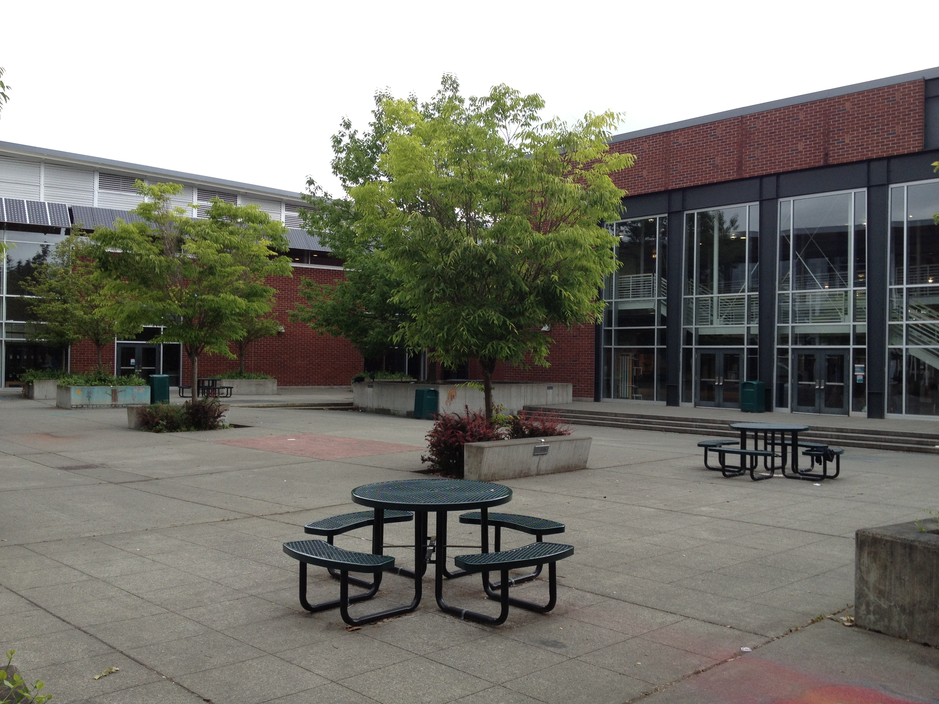 RHS Inner Courtyard